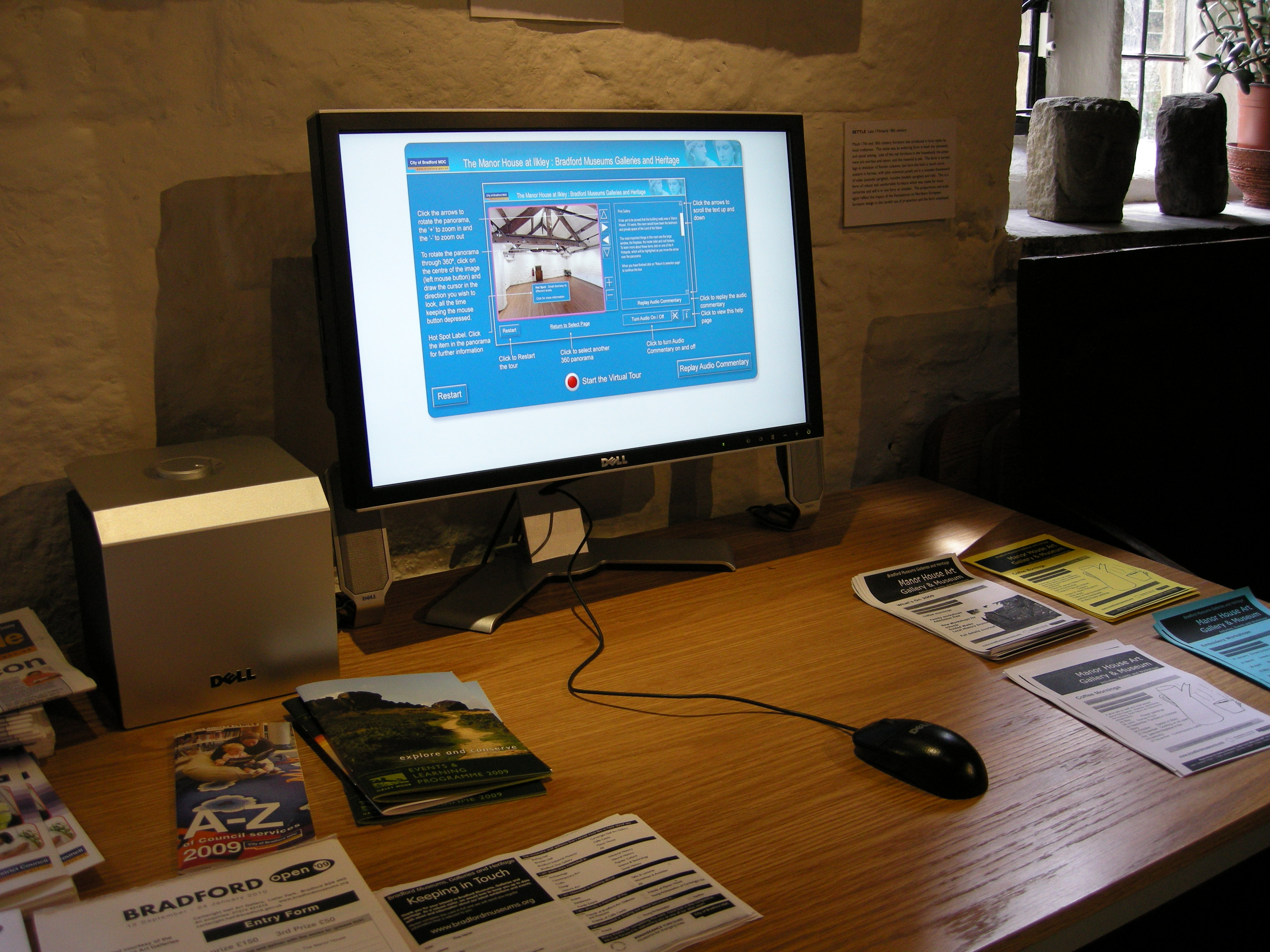 Screen giving virtual tour of upper floor of museum, because there is no disabled access upstairs. In Manor House Museum, Ilkley.